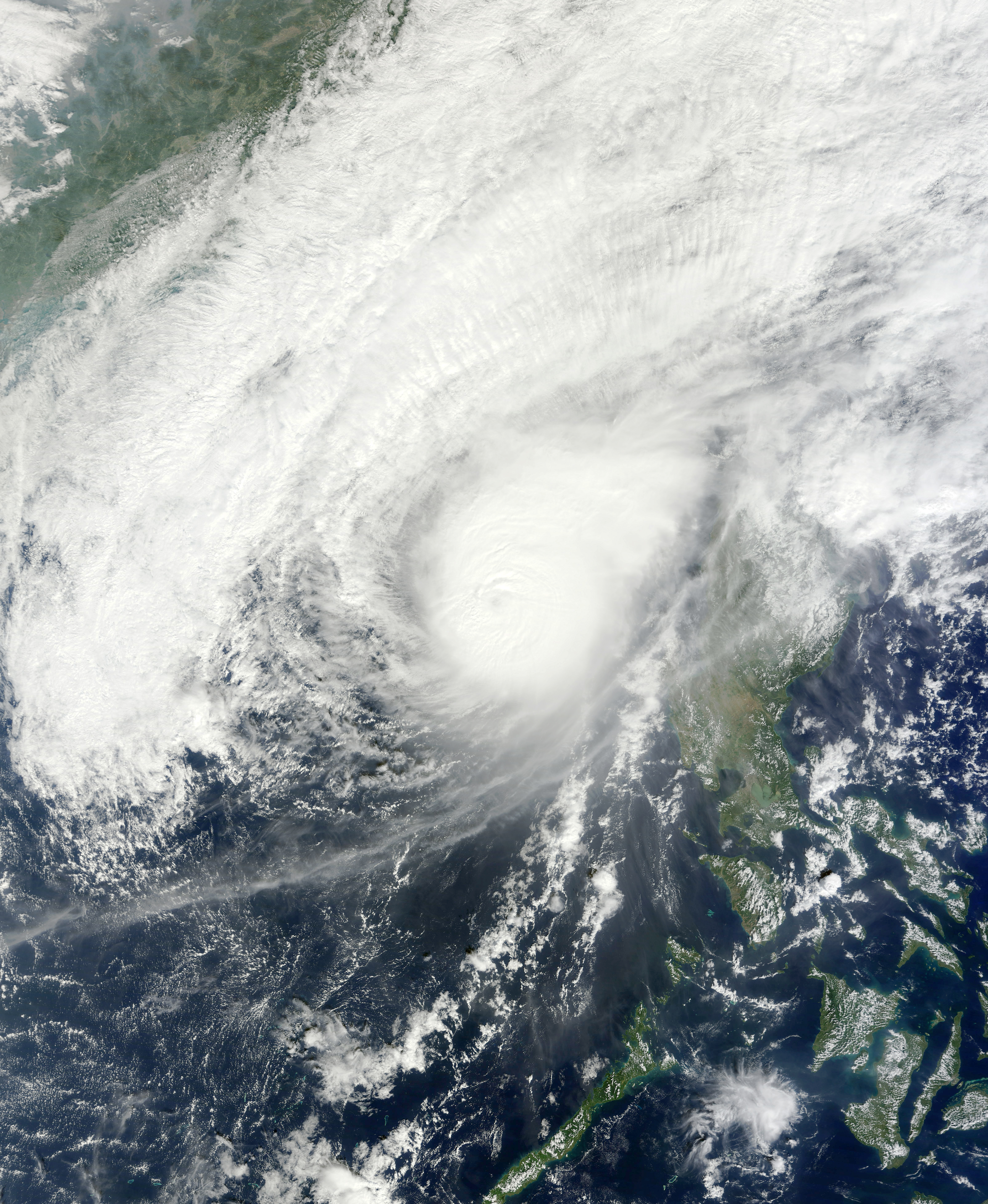 Typhoon Bopha on December 8, 2012